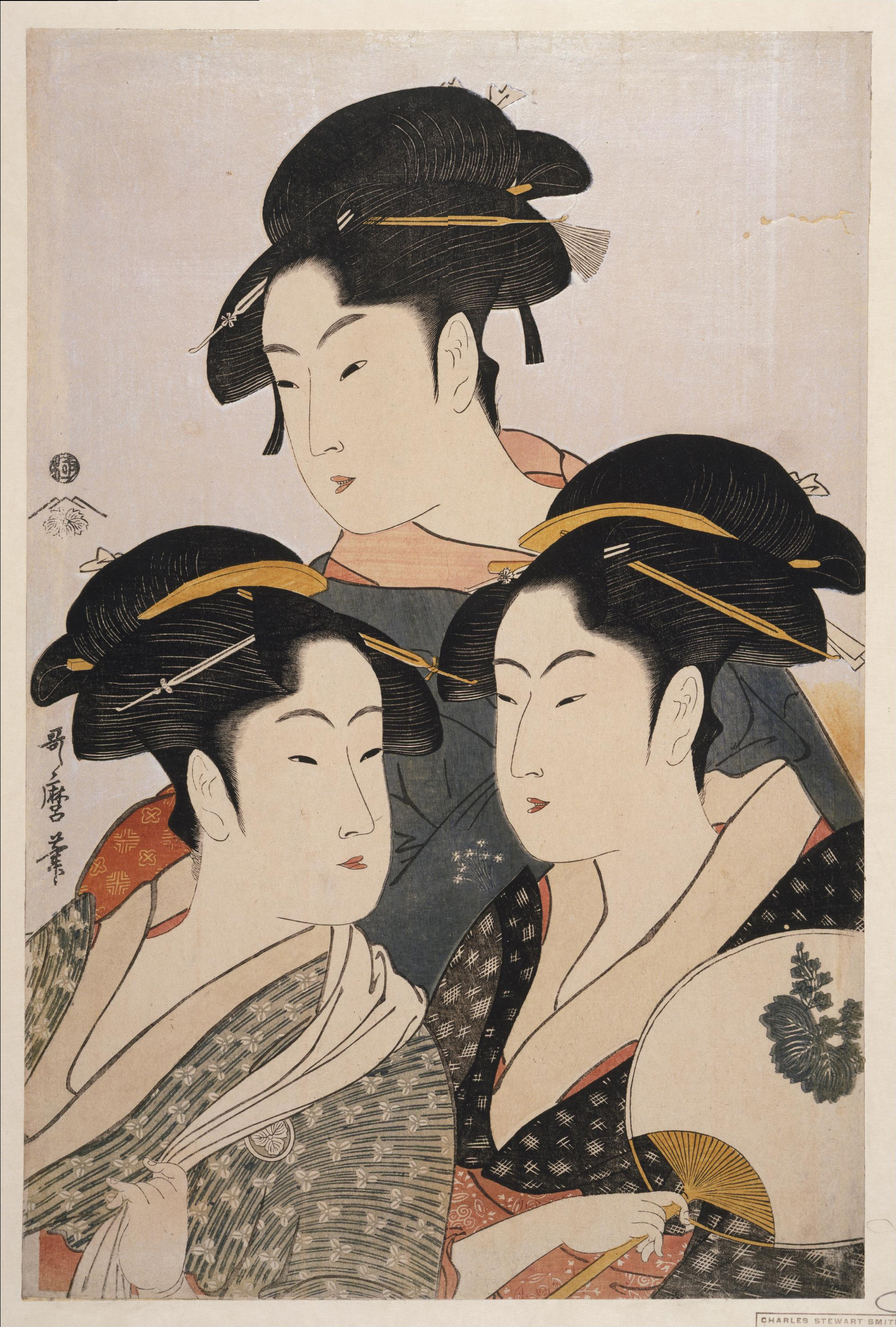 "Three known beauties (寛政三美人)" (Tôji san bijin), ukiyo-e by Utamaro